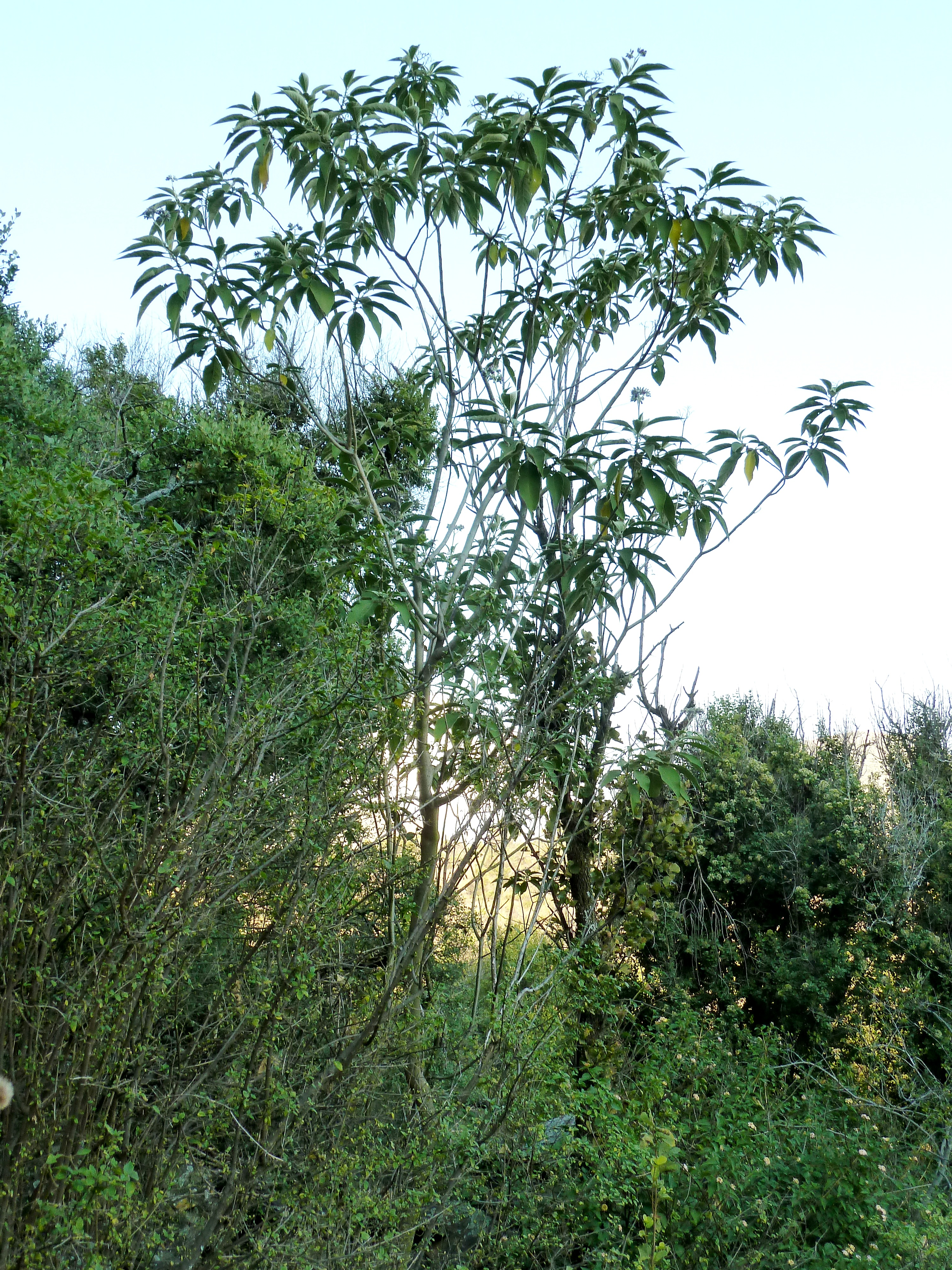 Woolly Nightshade and Lantana camara beside the Phalandingwe nature trail at Pelindaba, South Africa